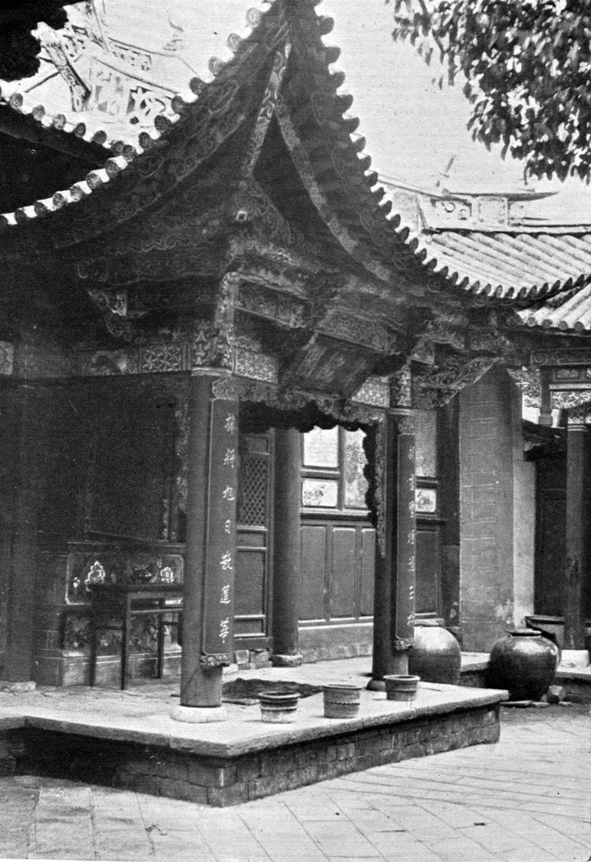 Bhamo joss house porch